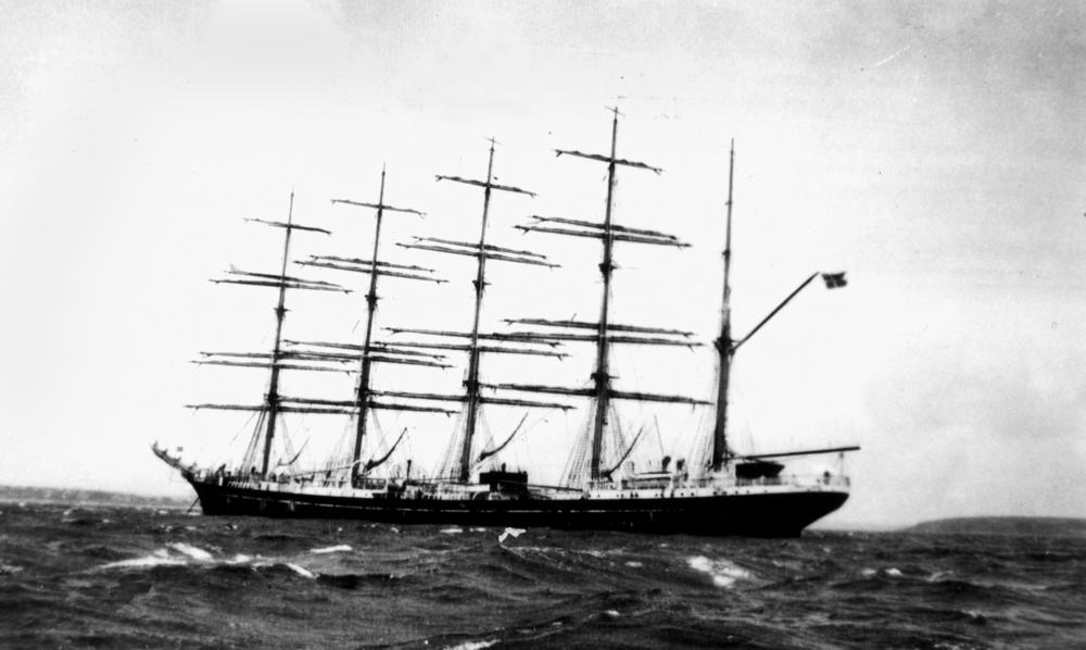 Kobenhavn (ship)